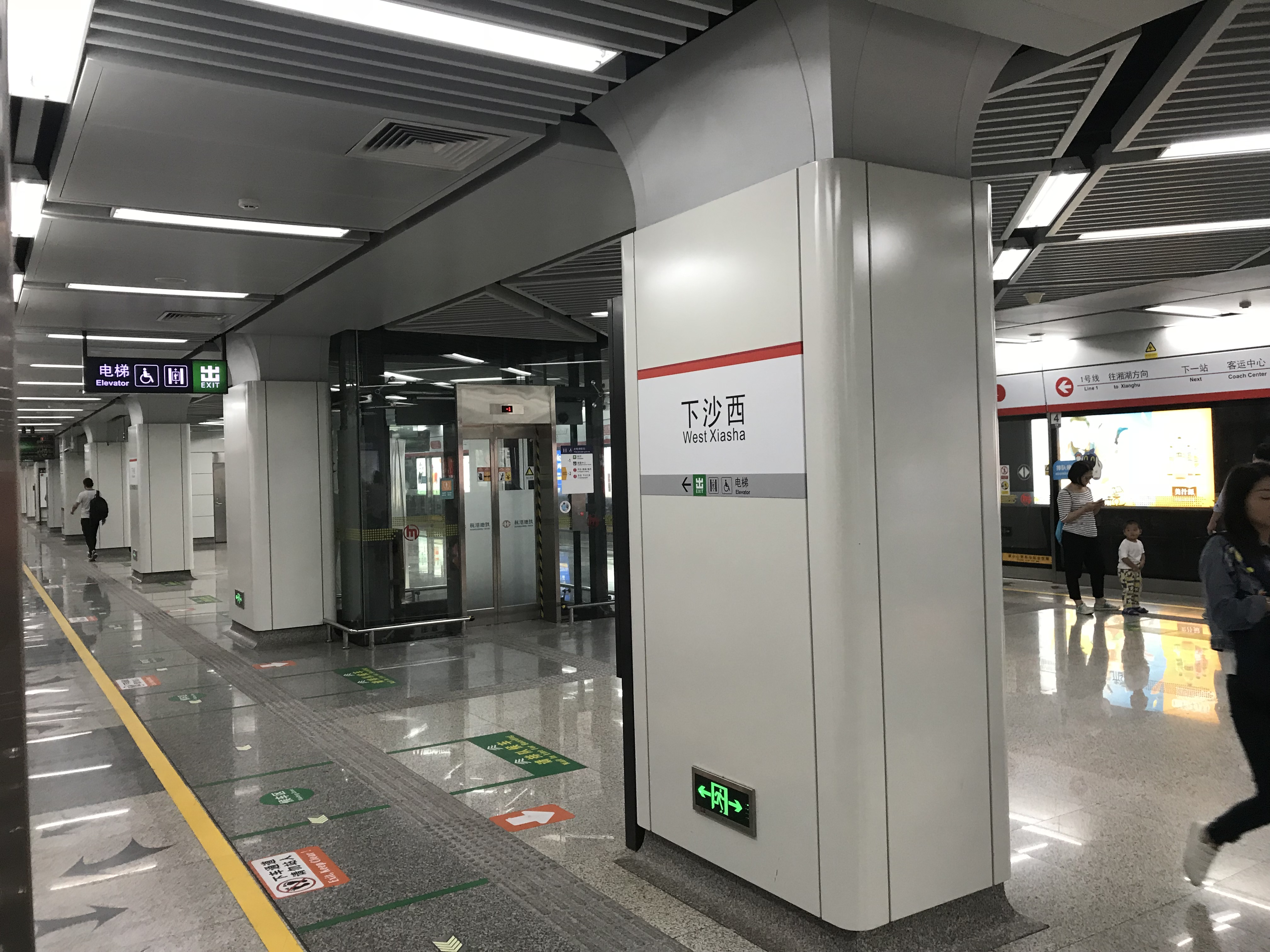 201806 West Xiasha Station